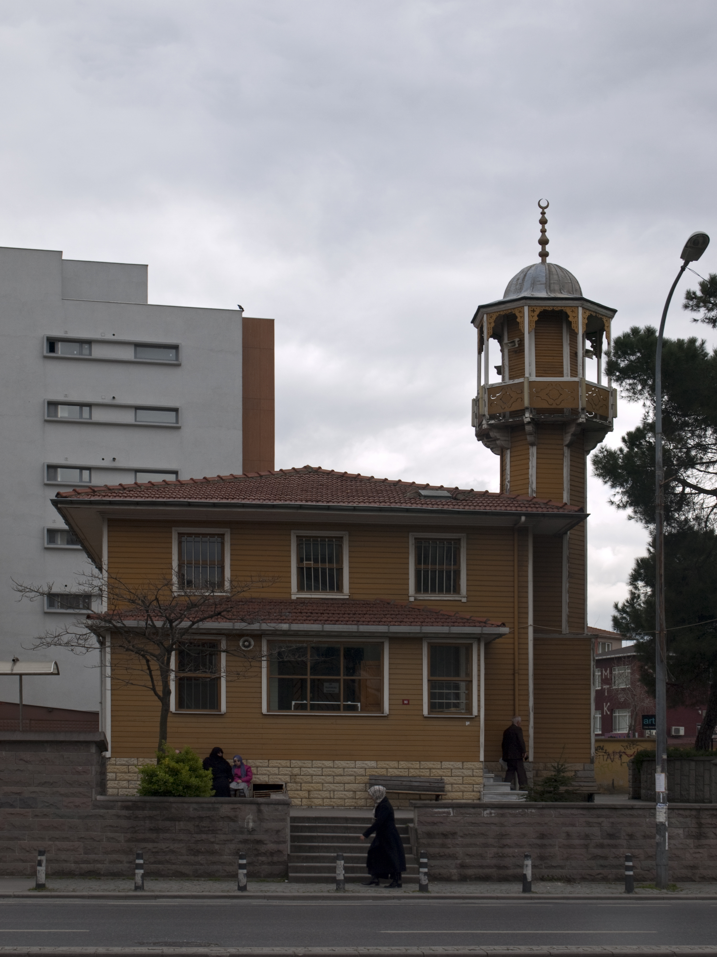 Namazgâh Mosque, Uskudar